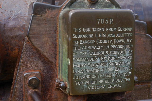 Engraving on right side of mounting of the gun from German submarine U-19. In Ward Park, Bangor, Northern Ireland. It records how the gun was taken from U-19 after the end of World War I and presented to Bangor in recognition of Edward Bingham's Victoria Cross action while in command of a destroyer division led by HMS Nestor at the Battle of Jutland. Note that the engraving incorrectly describes the German submarine as UB 19. See also : File:U-19 gun Ward Park Bangor right view .uk 646194 8c3d0bd1-by-Ross.jpg right side view File:U-19 gun Ward Park Bangor breech inscription .uk 1023996 05fee853-by-Ross.jpg Krupp markings on breech File:U-19 gun Ward Park Bangor left rear view .uk 174889 80083d80-by-Aubrey-Dale.jpg left rear view File:U-19 gun Ward Park Bangor muzzle view .uk 646190 0ef7340d-by-Ross.jpg muzzle view